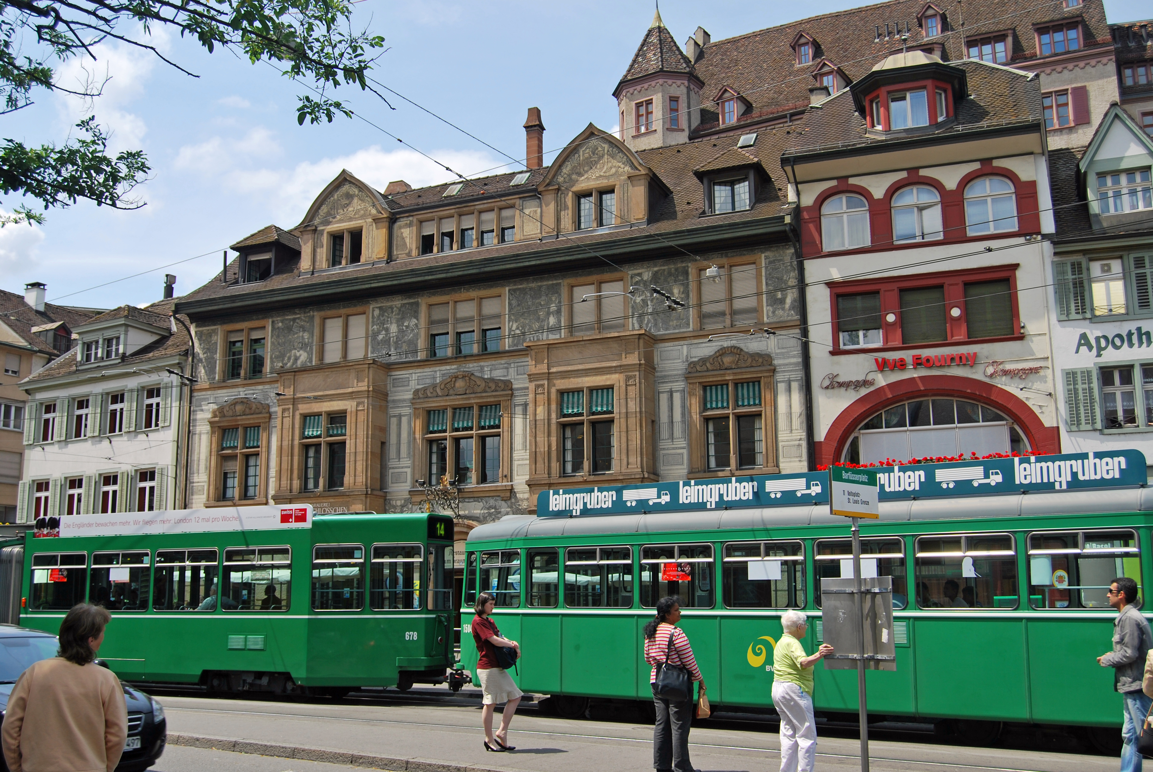 A tram set at Barfüsserplatz in Basel. This tram is an SWP articulated tram (about half out of the frame of the photo) towing a Swiss Standard Tram-type trailer.